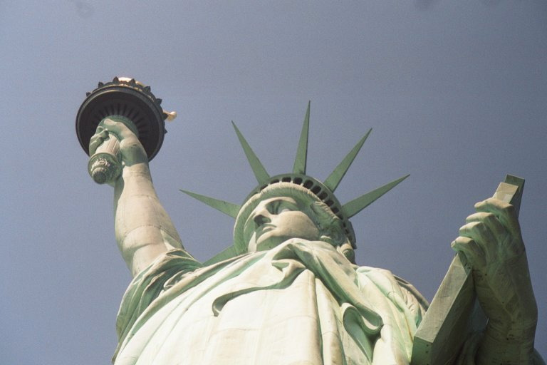 Statue of Liberty